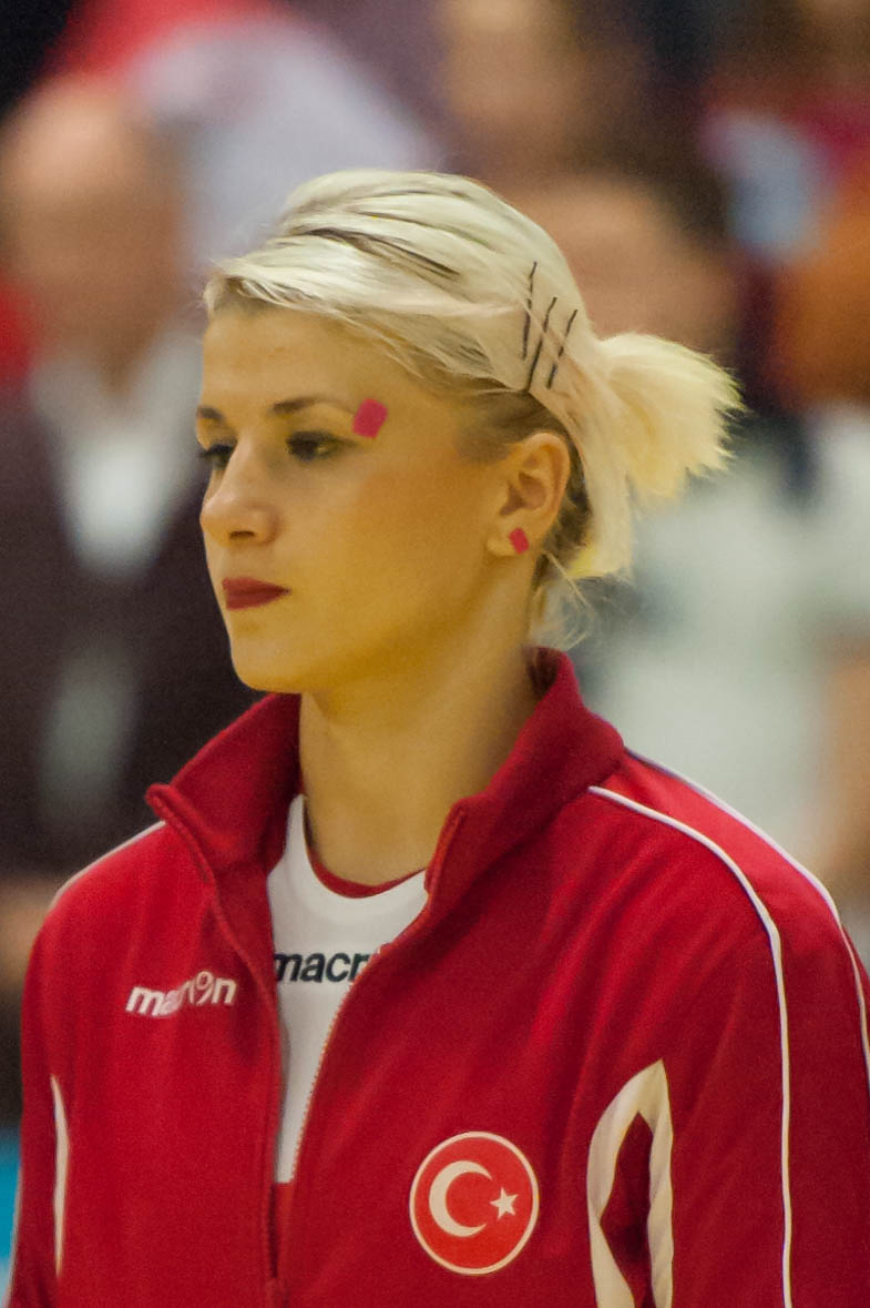 2015 World Women's Handball Championship Qualification 2014-12-06: Perihan Topaloğlu